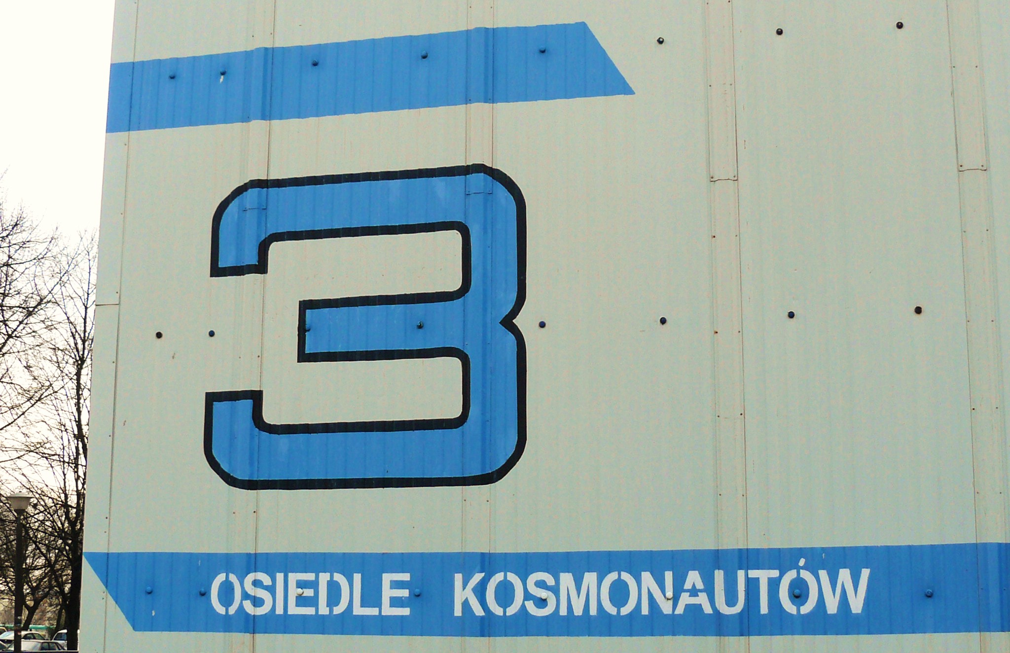 Kosmonautow District - Poznan.